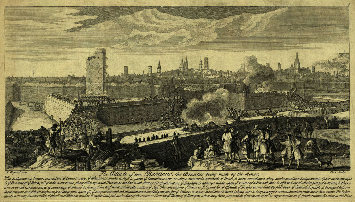 The attack of two bastions (Batalla del baluarte de Santa Clara)